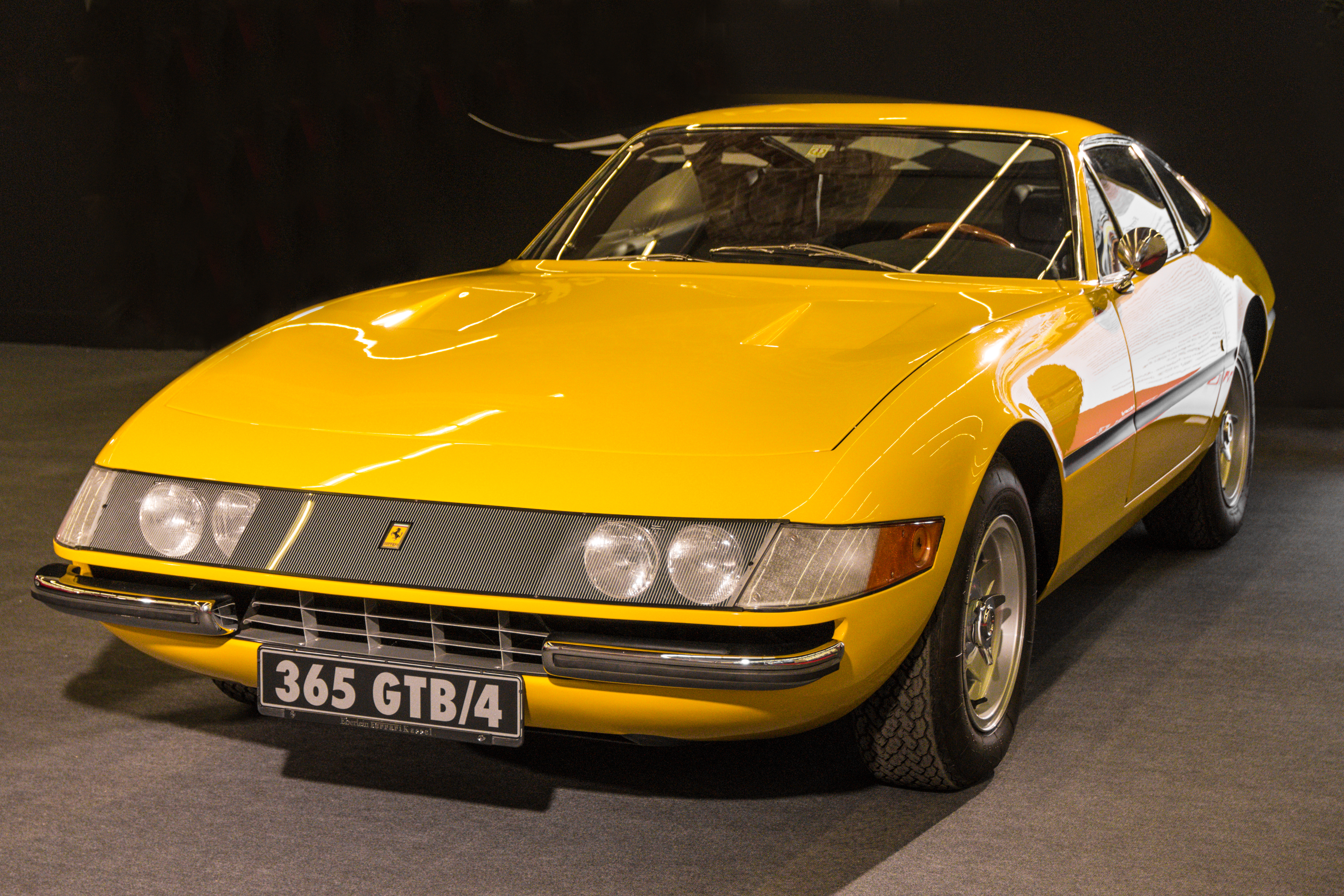 Ferrari 365 GTB/4